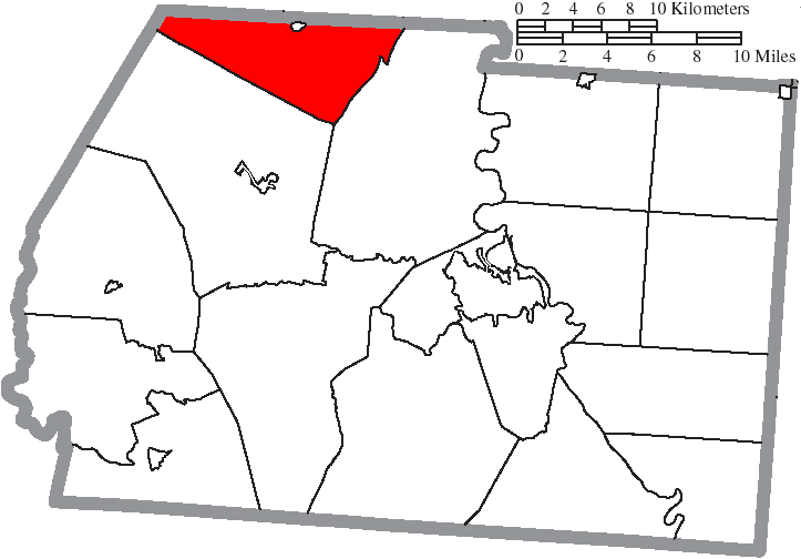 Map of the municipal and township boundaries of Ross County, Ohio, United States, as of the 2000 census, with the location of Deerfield Township highlighted. Township borders are shown only in unincorporated areas in order to differentiate incorporated and unincorporated areas more clearly.